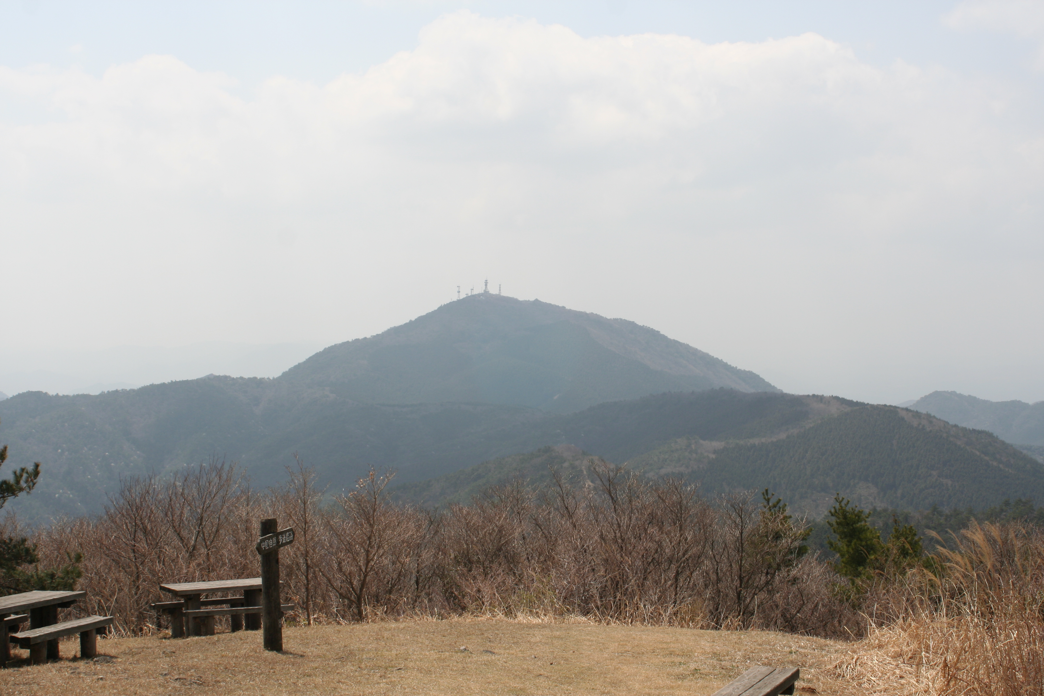 Mt.Nisihoubenzan